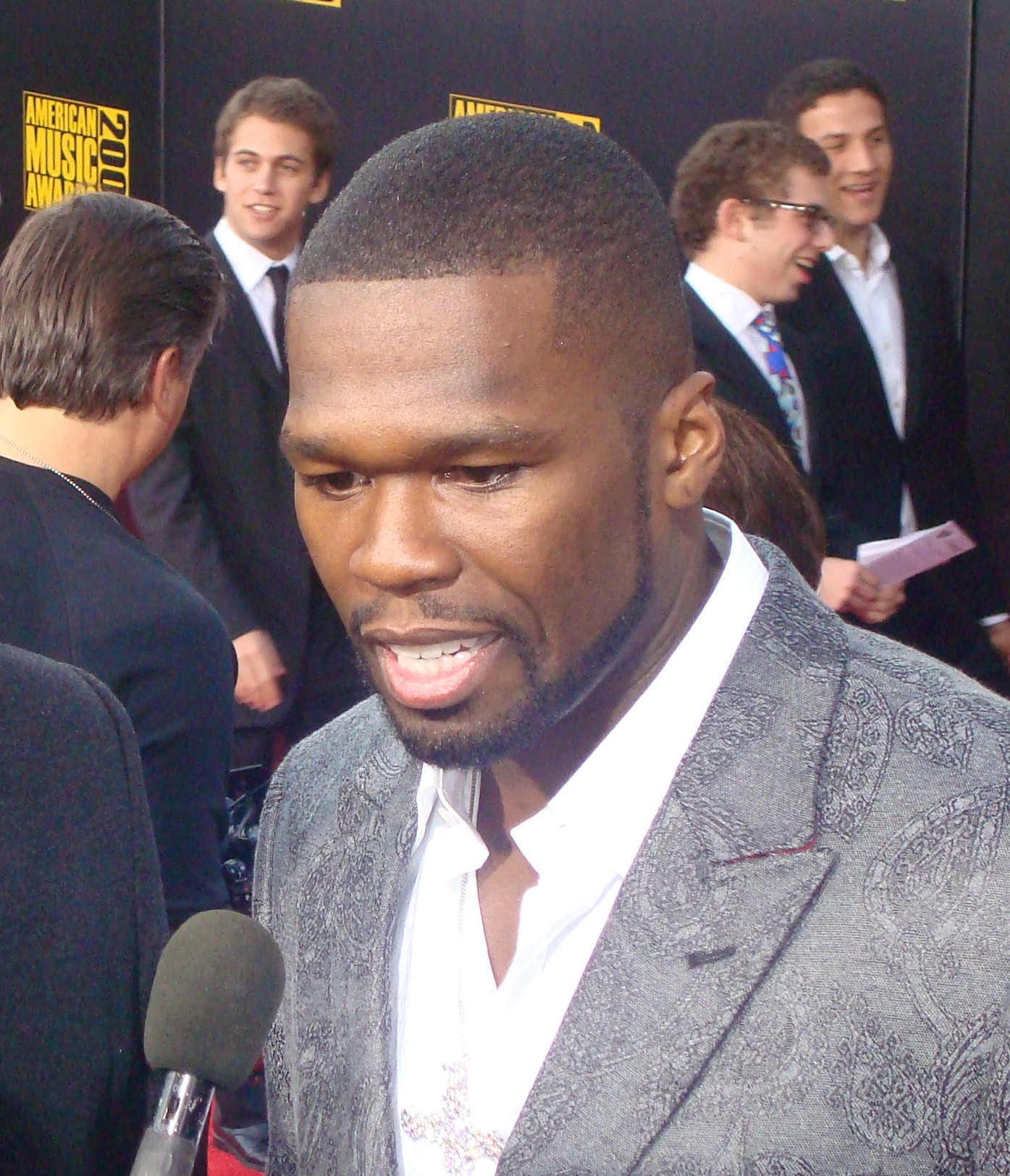 50 Cent at the 2009 American Music Awards Red Carpet.